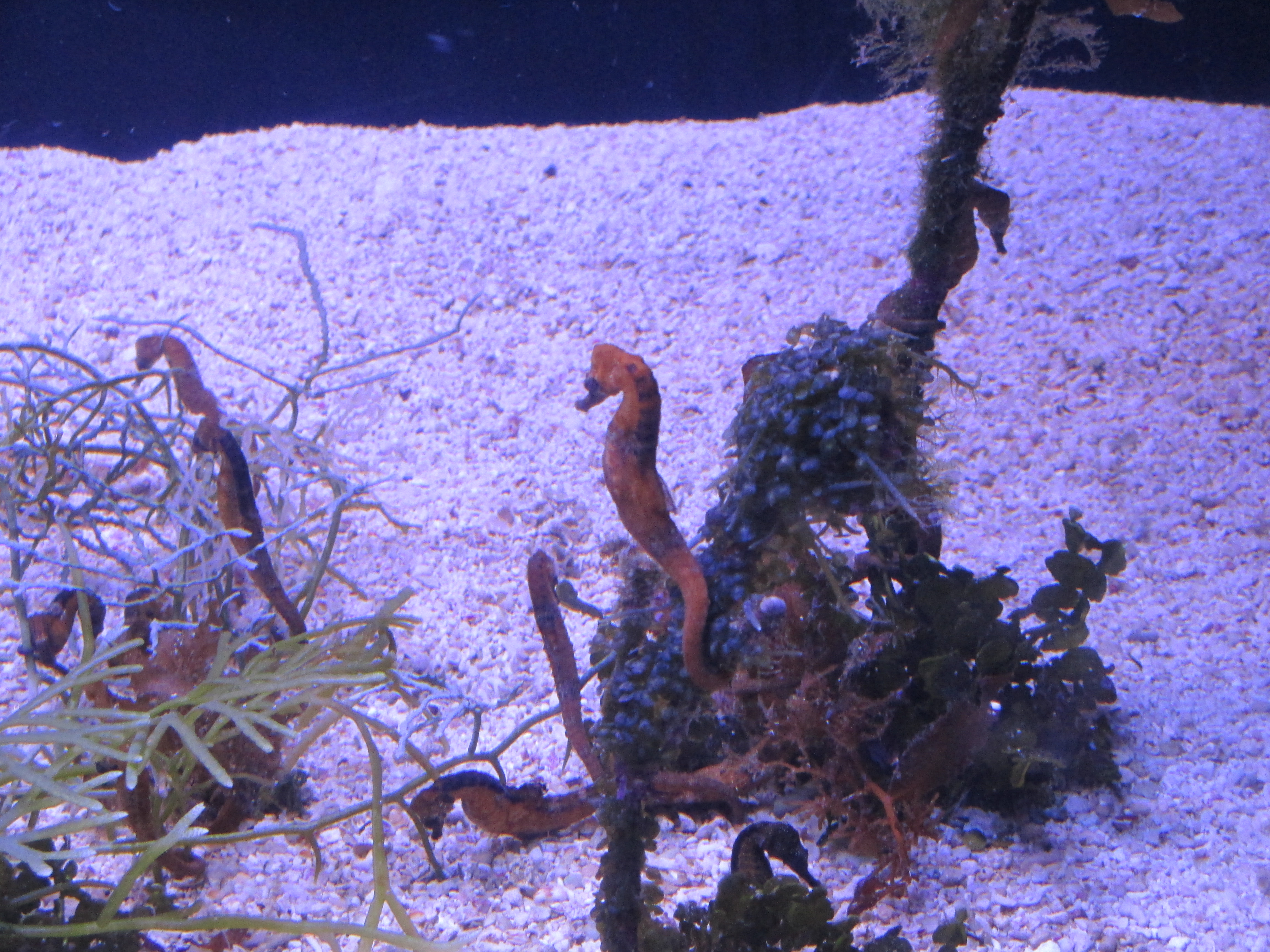 Seahorse in Eilat